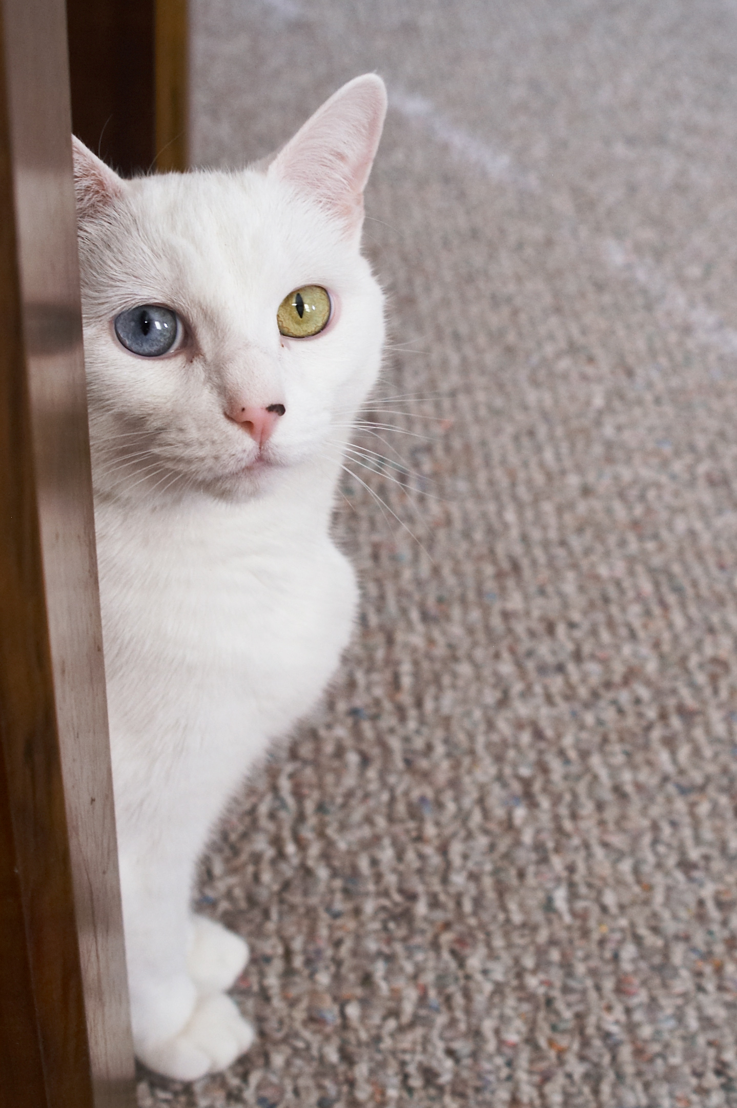 Odd-Eyed White indoor cat